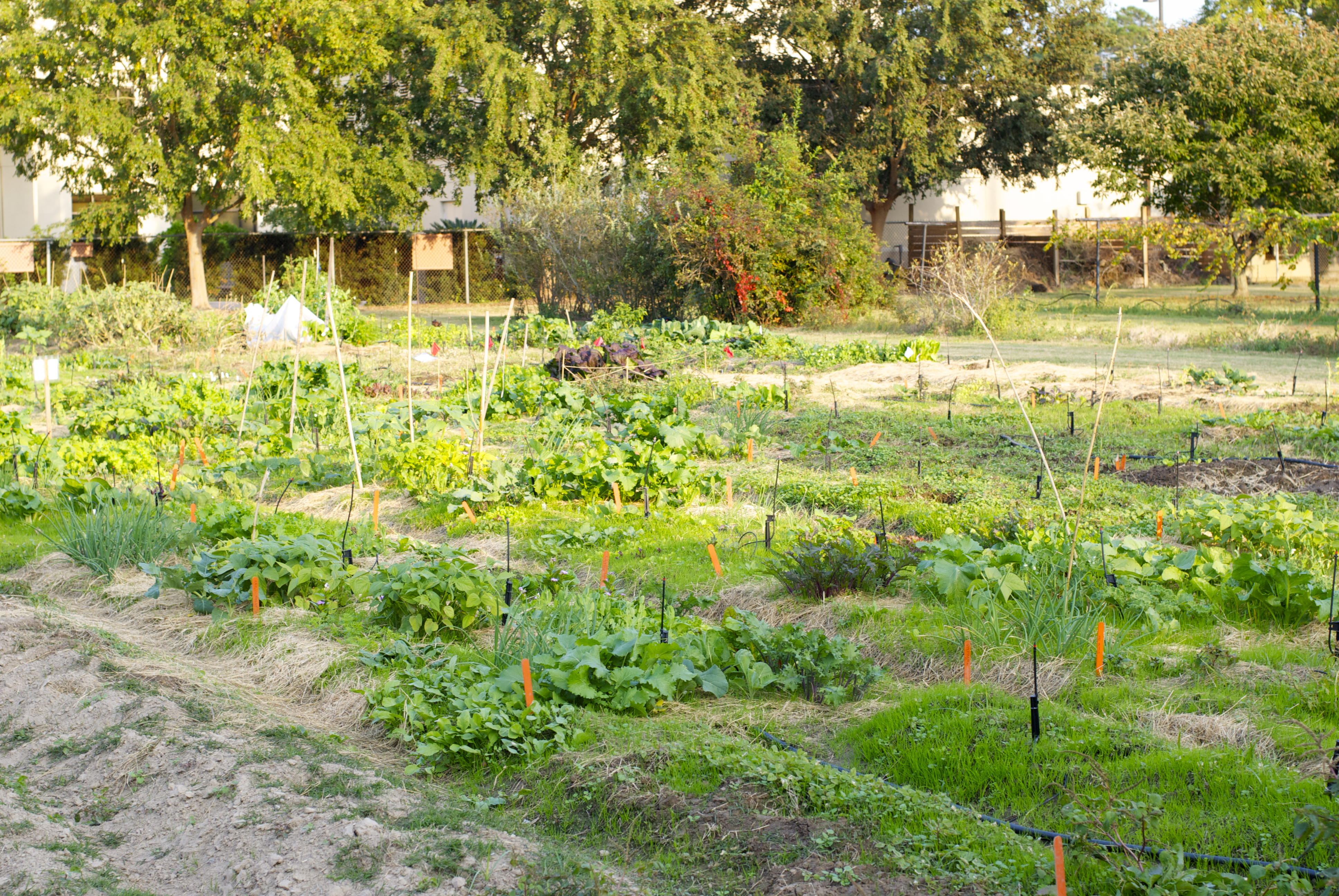 Taken at the Hill Farm Community Garden located on the campus of the Louisiana State University and Agricultural and Mechanical College.